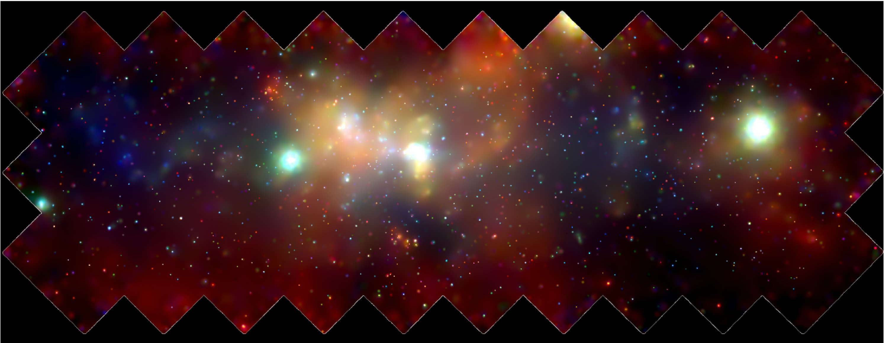 Original caption: This 400 by 900 light-year mosaic of several Chandra images of the central region of our Milky Way galaxy reveals hundreds of white dwarf stars, neutron stars, and black holes bathed in an incandescent fog of multimillion-degree gas. The supermassive black hole at the center of the Galaxy is located inside the bright white patch in the center of the image. The colors indicate X-ray energy bands - red (low), green (medium), and blue (high). The mosaic gives a new perspective on how the turbulent Galactic Center region affects the evolution of the Galaxy as a whole. This hot gas appears to be escaping from the center into the rest of the Galaxy. The outflow of gas, chemically enriched from the frequent destruction of stars, will distribute these elements into the galactic suburbs. Because it is only about 25,000 light years from Earth, the center of our Galaxy provides an excellent laboratory to learn about the cores of other galaxies.